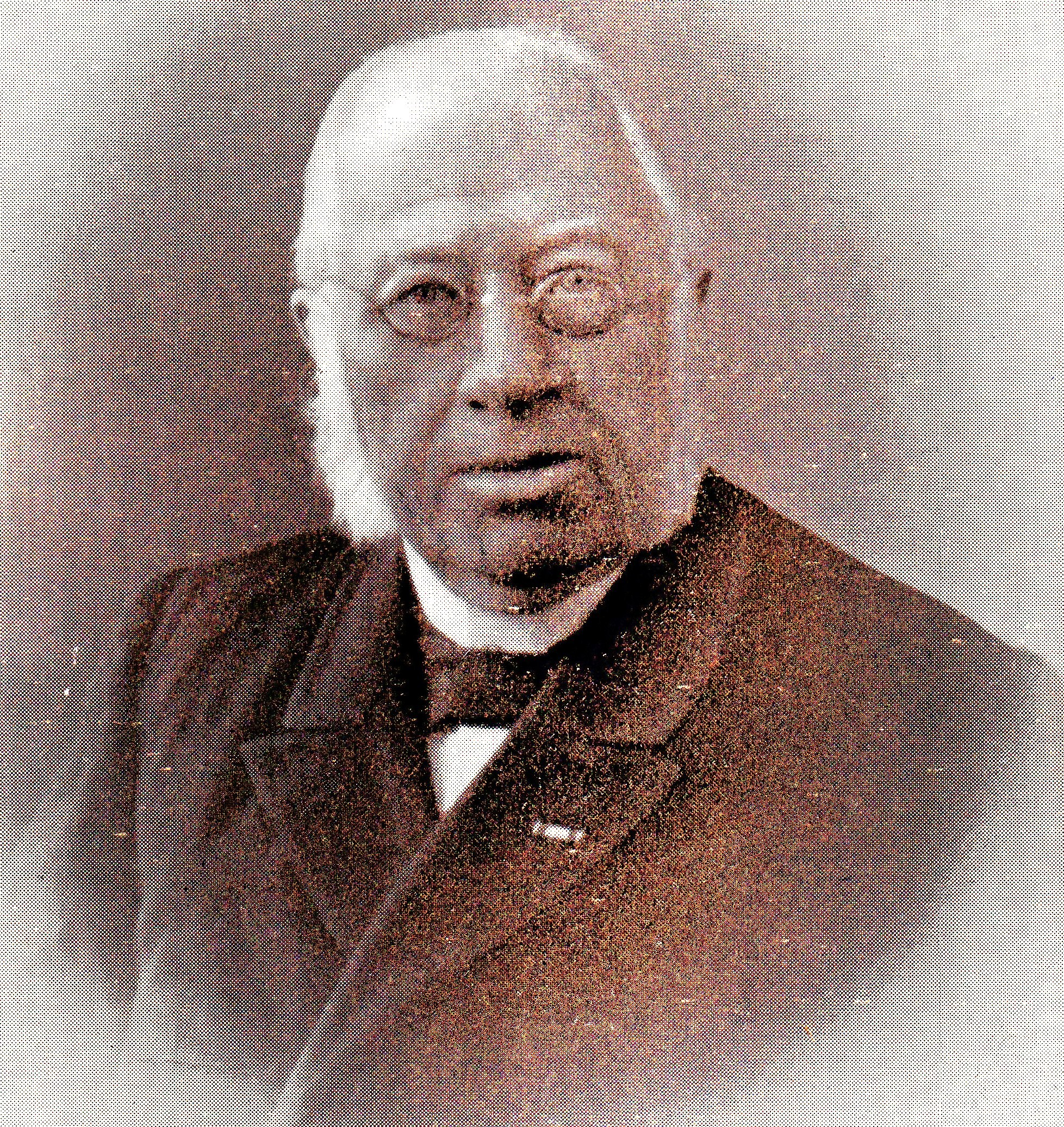 Mre. A.P.Th. Eyssell